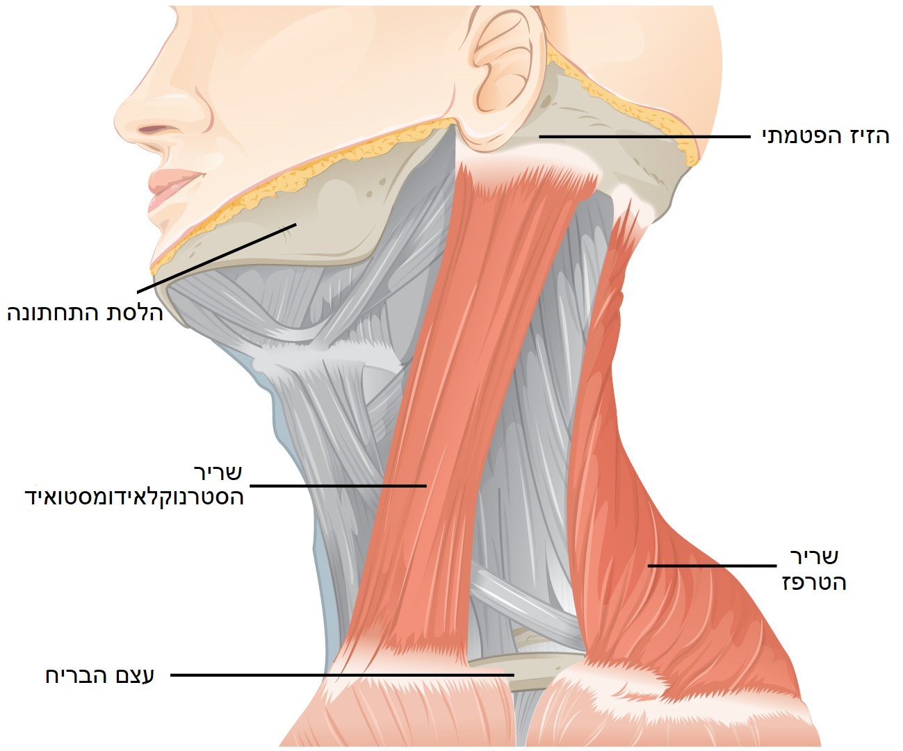 Illustration from Anatomy & Physiology, Connexions Web site. Jun 19, 2013.